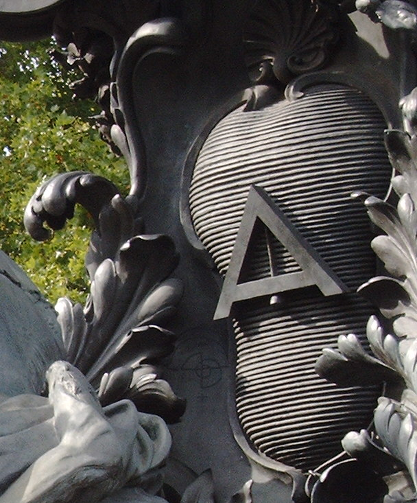 Archipendulum on the Republic's cart, next to the Statue of Justice in the sculptural ensemble Le Triomphe de la République [fr] in Paris (France).